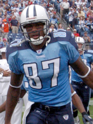 Nashville, Tenn. (Oct. 12, 2003) -- Players from the National Football League (NFL) Tennessee “Titans” are greeted by Sailors from the aircraft carrier USS Theodore Roosevelt (CVN 71), as they take the field during week six of the regular season against the Houston “Texans.” Crewmembers were invited by the Titans and the city of Nashville as guests to enjoy the game and participate in opening ceremonies.